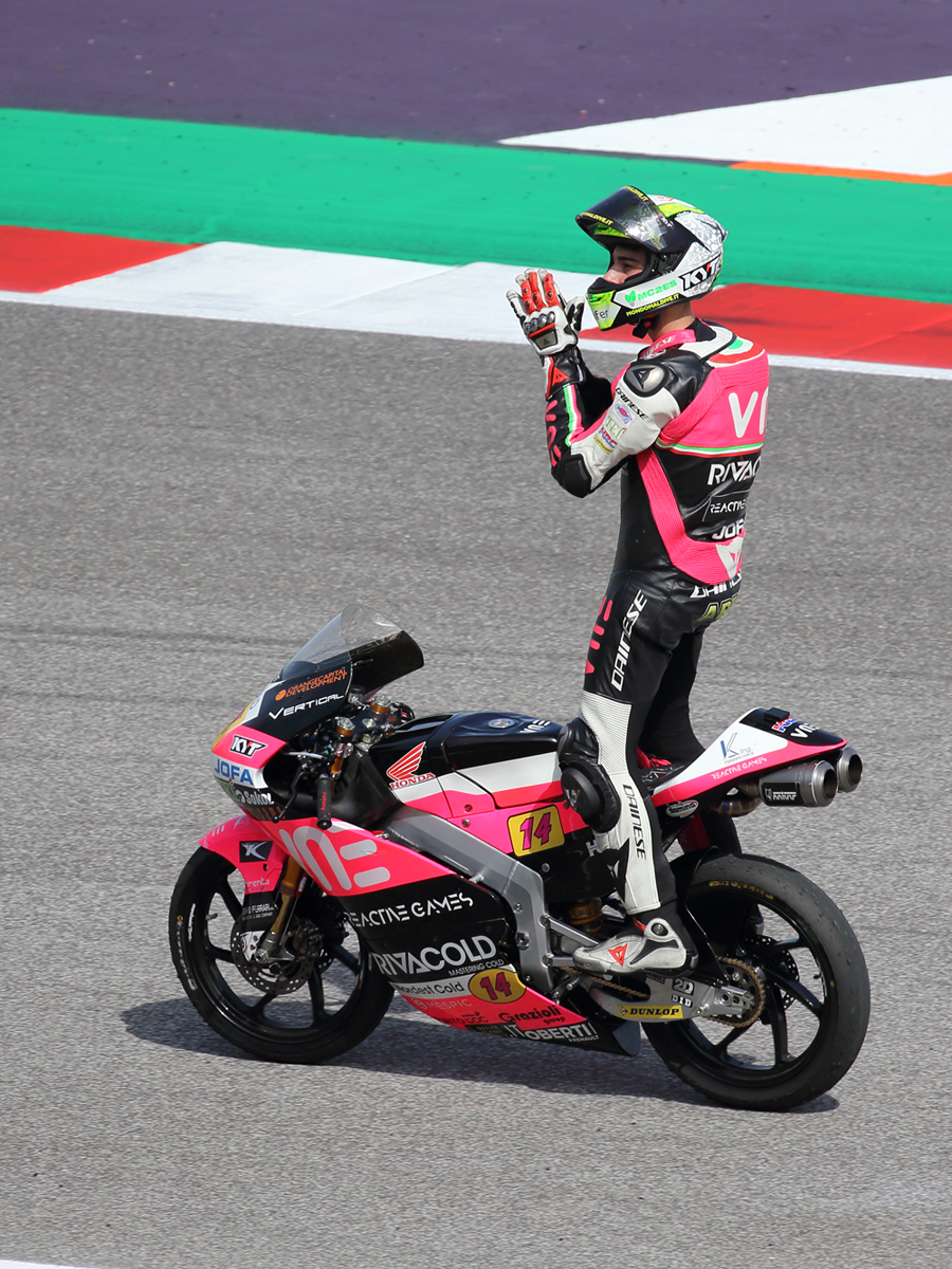 Tony Arbolino shows his appreciation of the fans after finishing third on the podium at his home race at Misano.